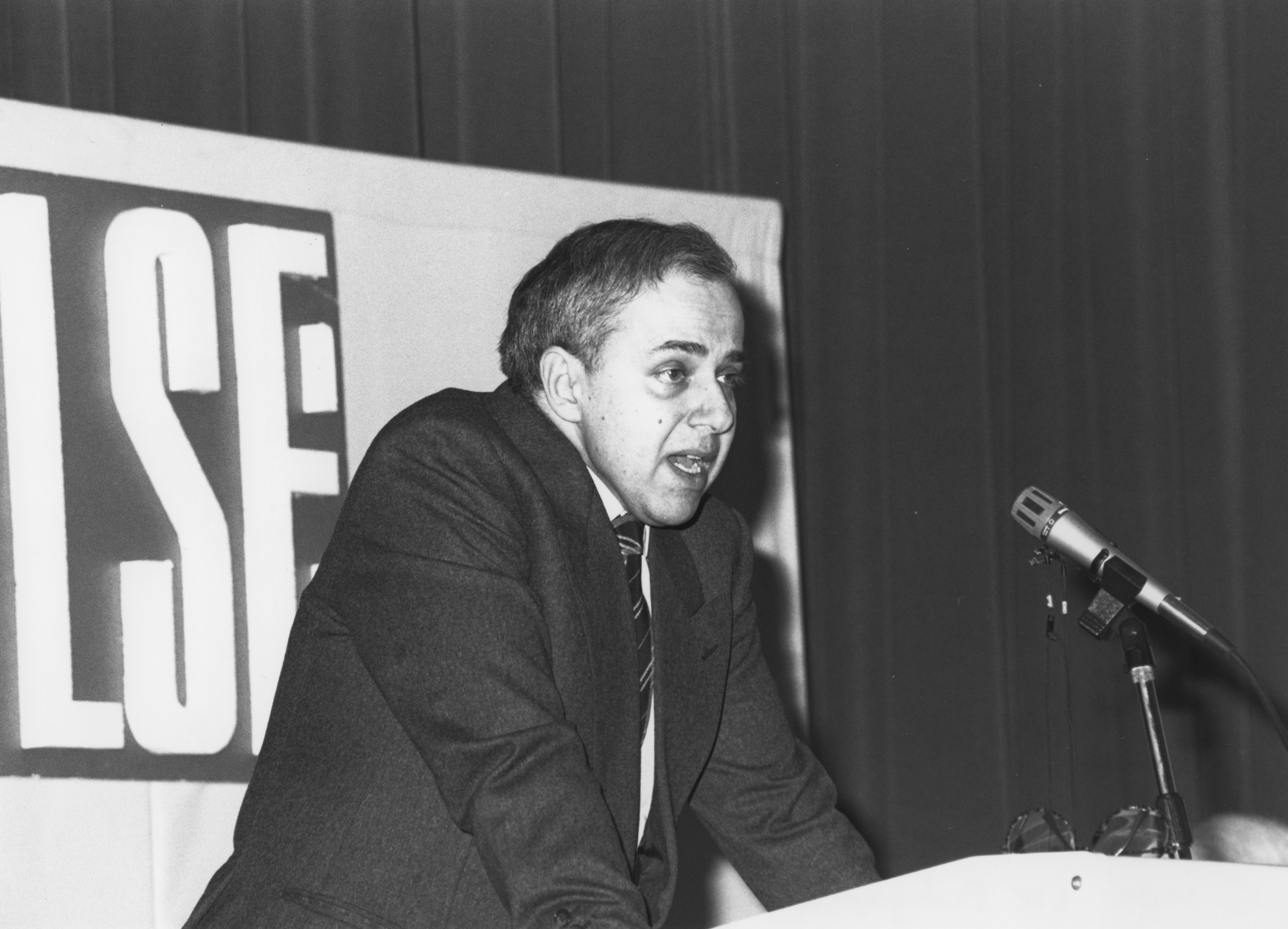 Public lecture 30th November, 1989 titled 'Comparitive Law: A Subject in Search of an Audience.' IMAGELIBRARY/278 Persistent URL